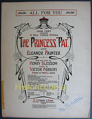 Sheet music from The Princess Pat by Victor Herbert, 1915